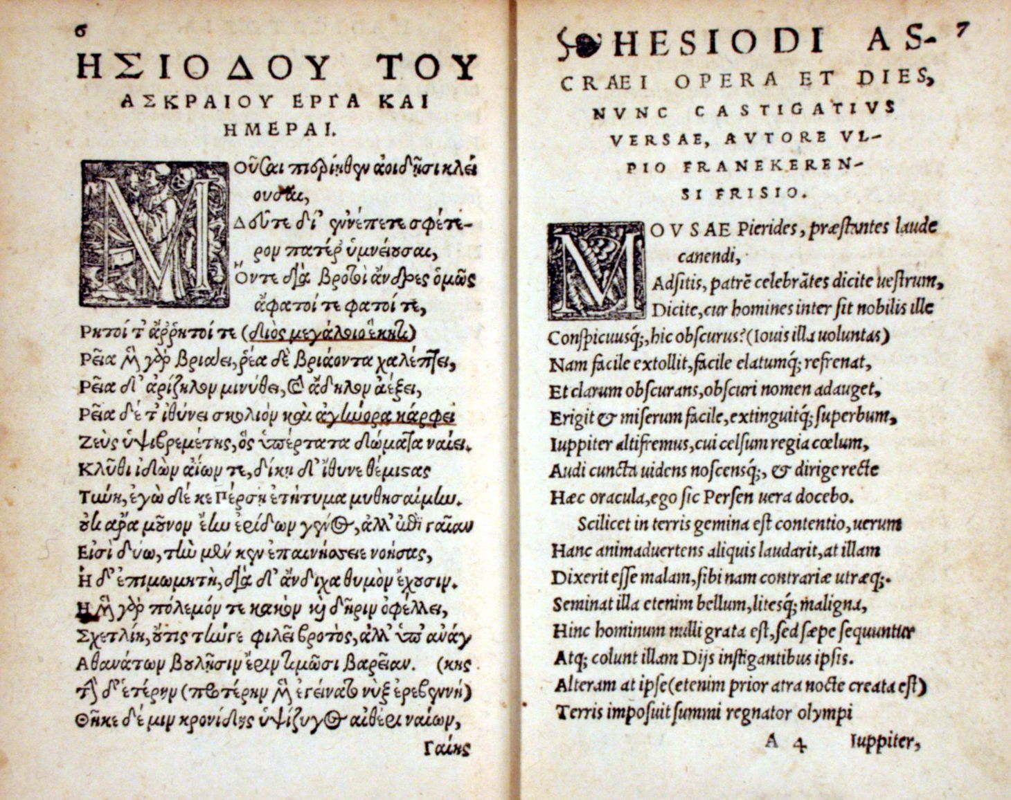 Initial page of Hesiod’s poem Works and Days, with the Greek original text on the left side, and a Latin translation on the right side. From the 1539 edition Hesiodi Ascraei opuscula inscripta ΕΡΓΑ ΚΑΙ ΗΜΕΡΑΙ, sic recens nunc Latinè reddita, ut uersus uersui respondeat, unà cum scholiis obscuriora aliquot loca illustrantibus. Ulpio Franekerensi Frisio autore, addita est antiqua Nicolai Vallae translatio, ut quis conferre queat. Basileae, Mich. Ising., 1539, p. 6–7.